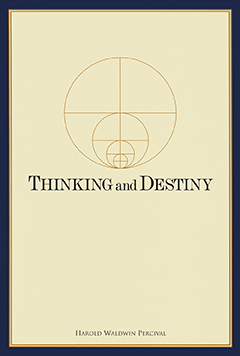 Thinking and Destiny by Harold W Percival published by The Word Foundation